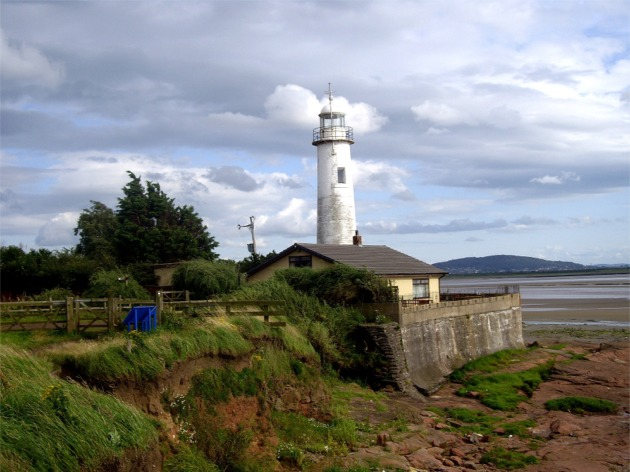 Lighthouse at Hale Head